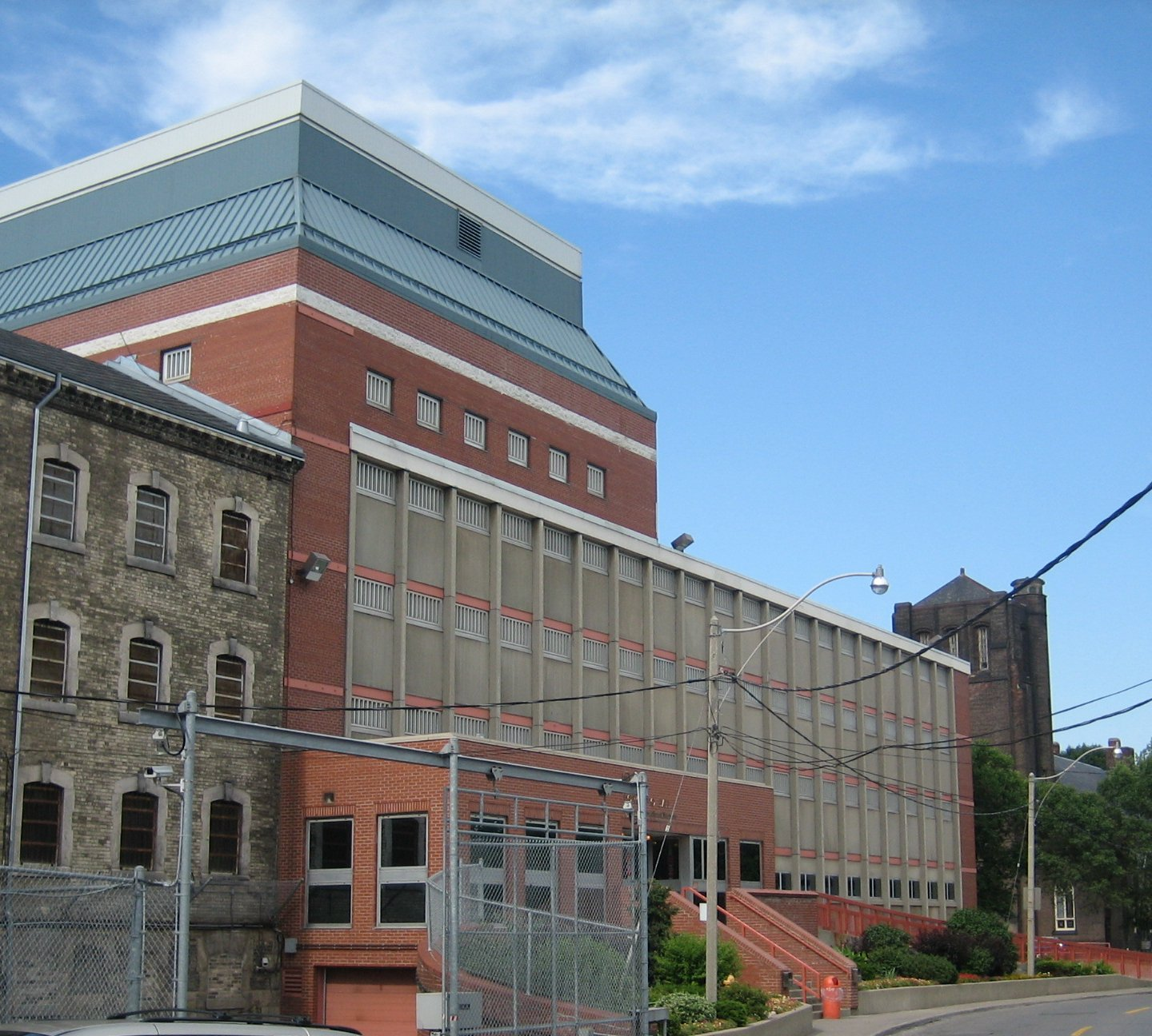 The Don Jail